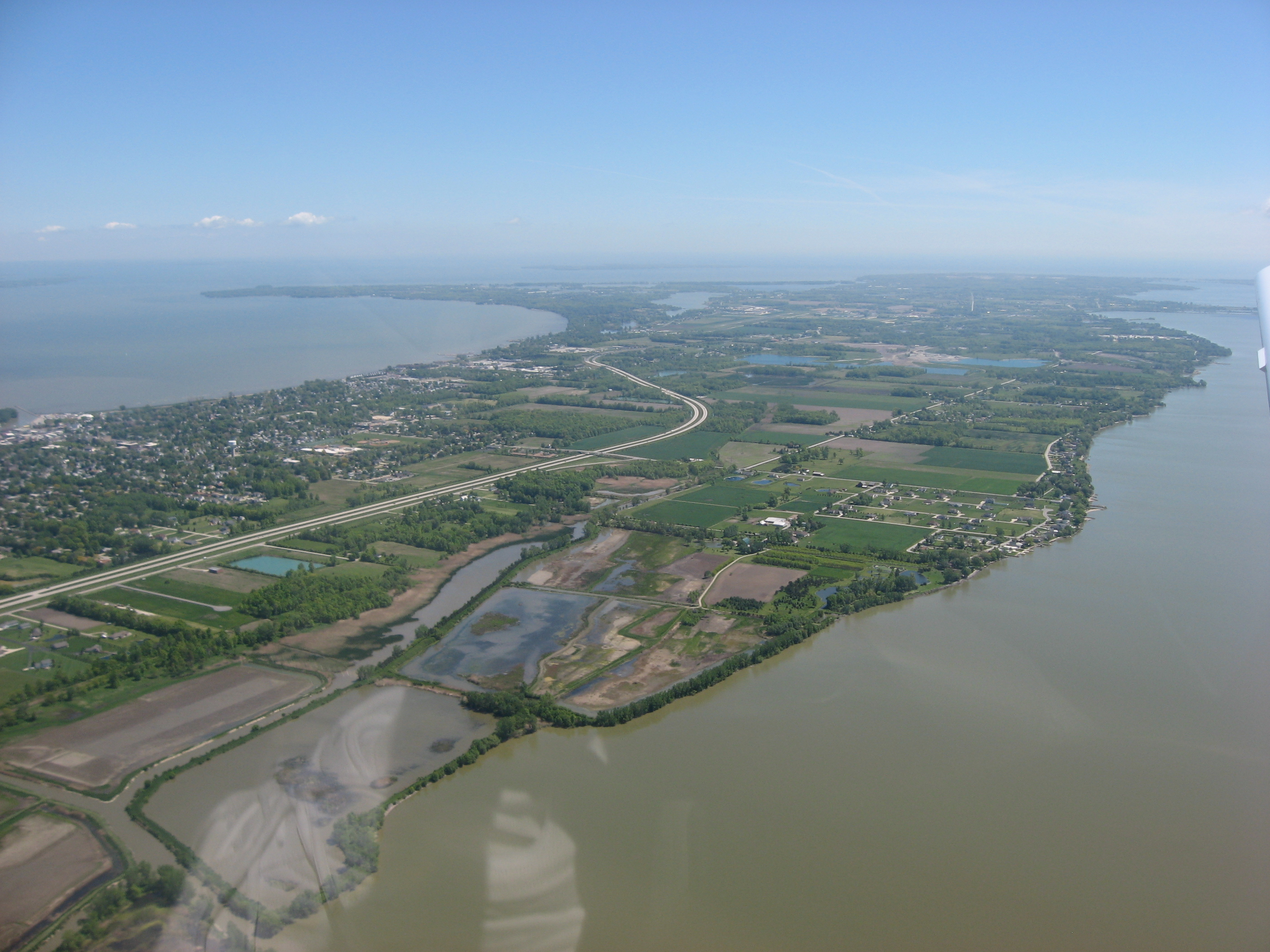 Aerial view of the western end of the Marblehead Peninsula in Portage Township, Ottawa County, Ohio, United States, with Port Clinton on the far left edge. Bodies of water are Sandusky Bay on the near side, and Lake Erie on the far side of the peninsula. Picture taken from a Diamond Eclipse light airplane at an altitude of 2,400 feet MSL and a bearing of approximately 90º.